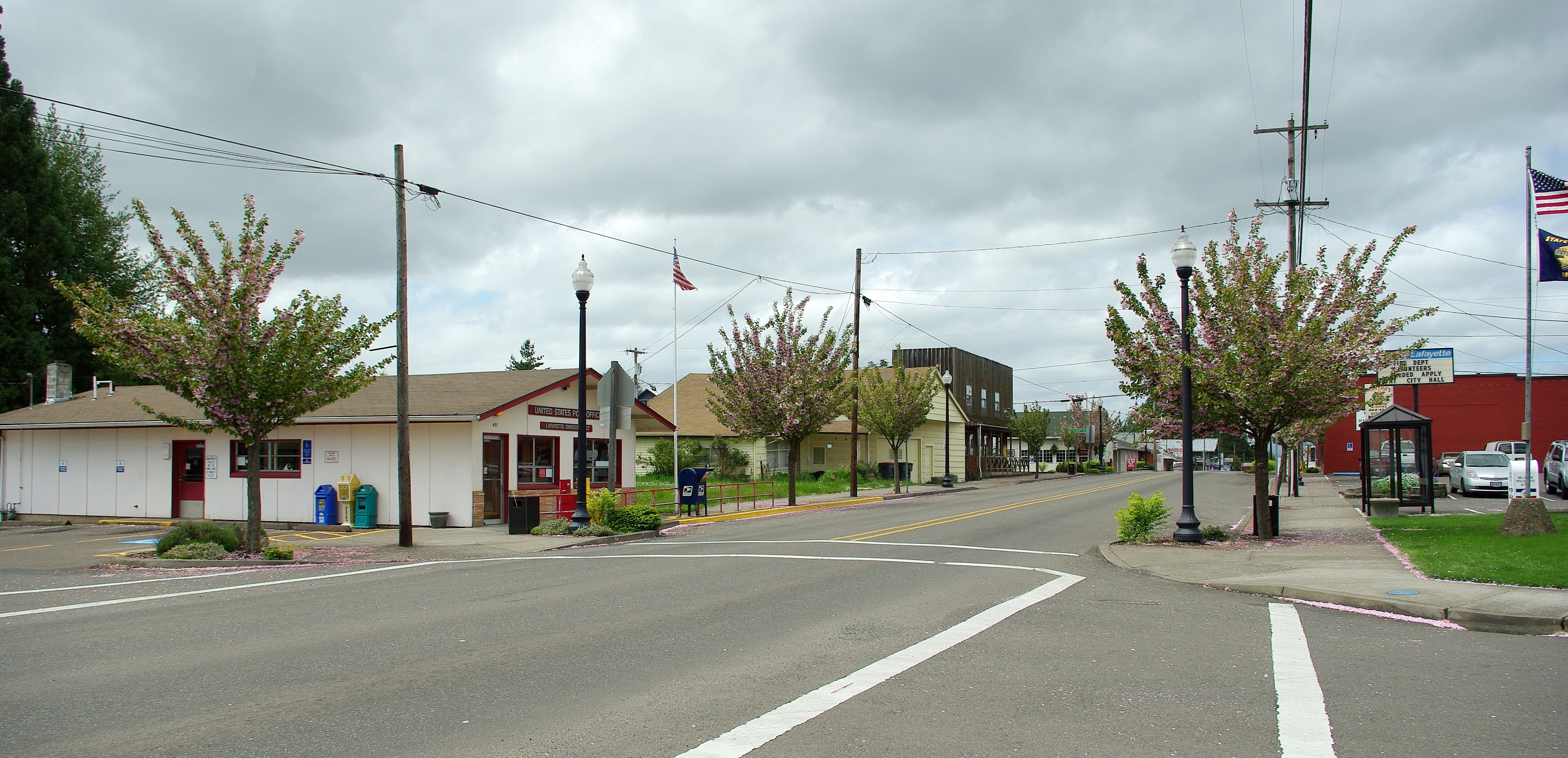 Lafayette, Oregon, USA. 99W, AKA 3rd street looking west.